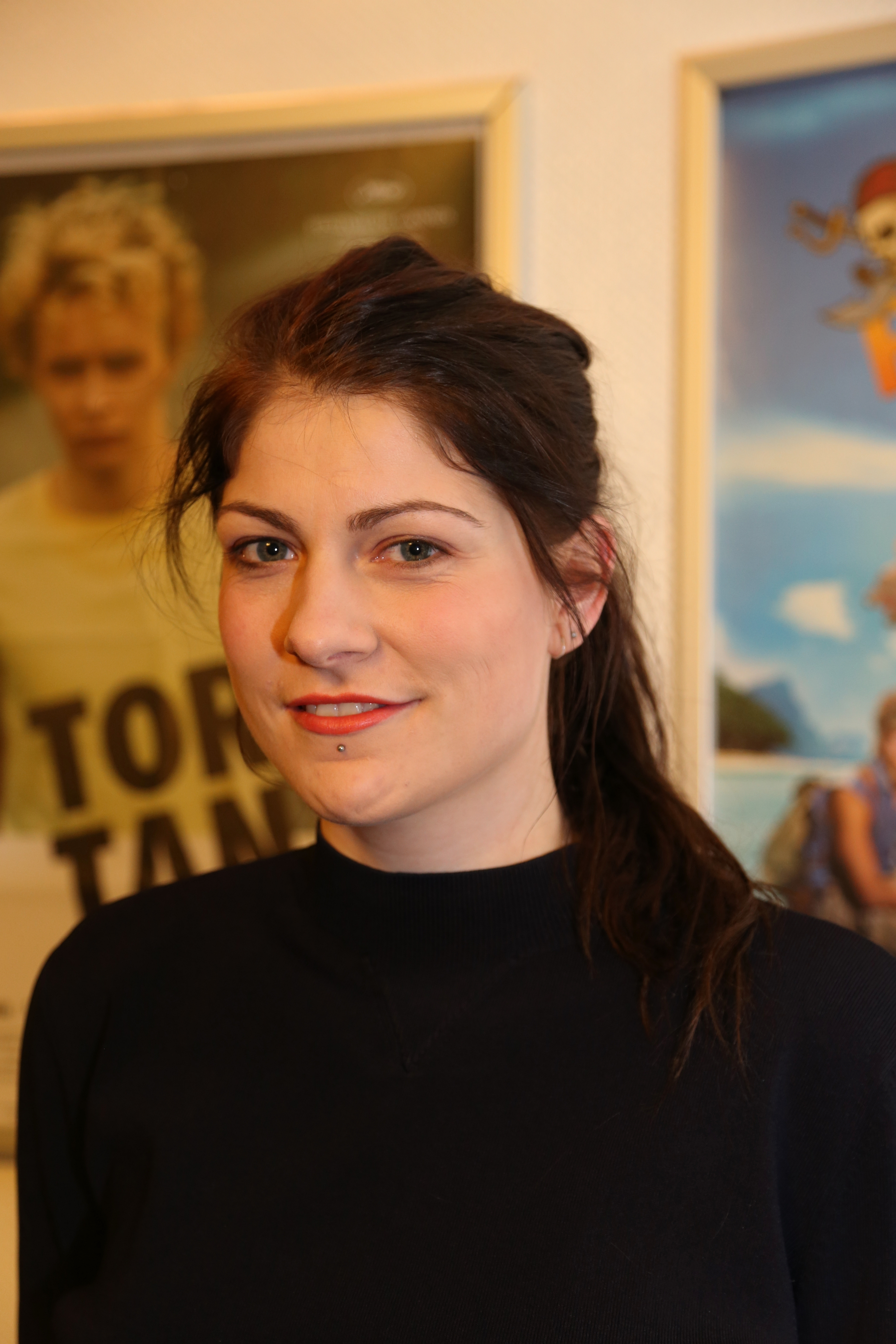 German film director and screenwriter Katrin Gebbe presenting her motion picture Tore tanzt at the Apollo-Kino Center Ibbenbüren in Ibbenbüren, Kreis Steinfurt, North Rhine-Westphalia, Germany.